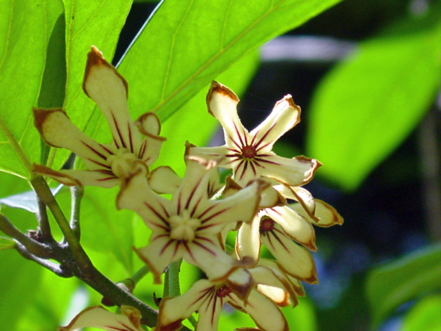 Blossoms of a Cola acuminata taken in Rio de Janeiro Botanical Garden. Photo by M. A. P. Accardo Filho.